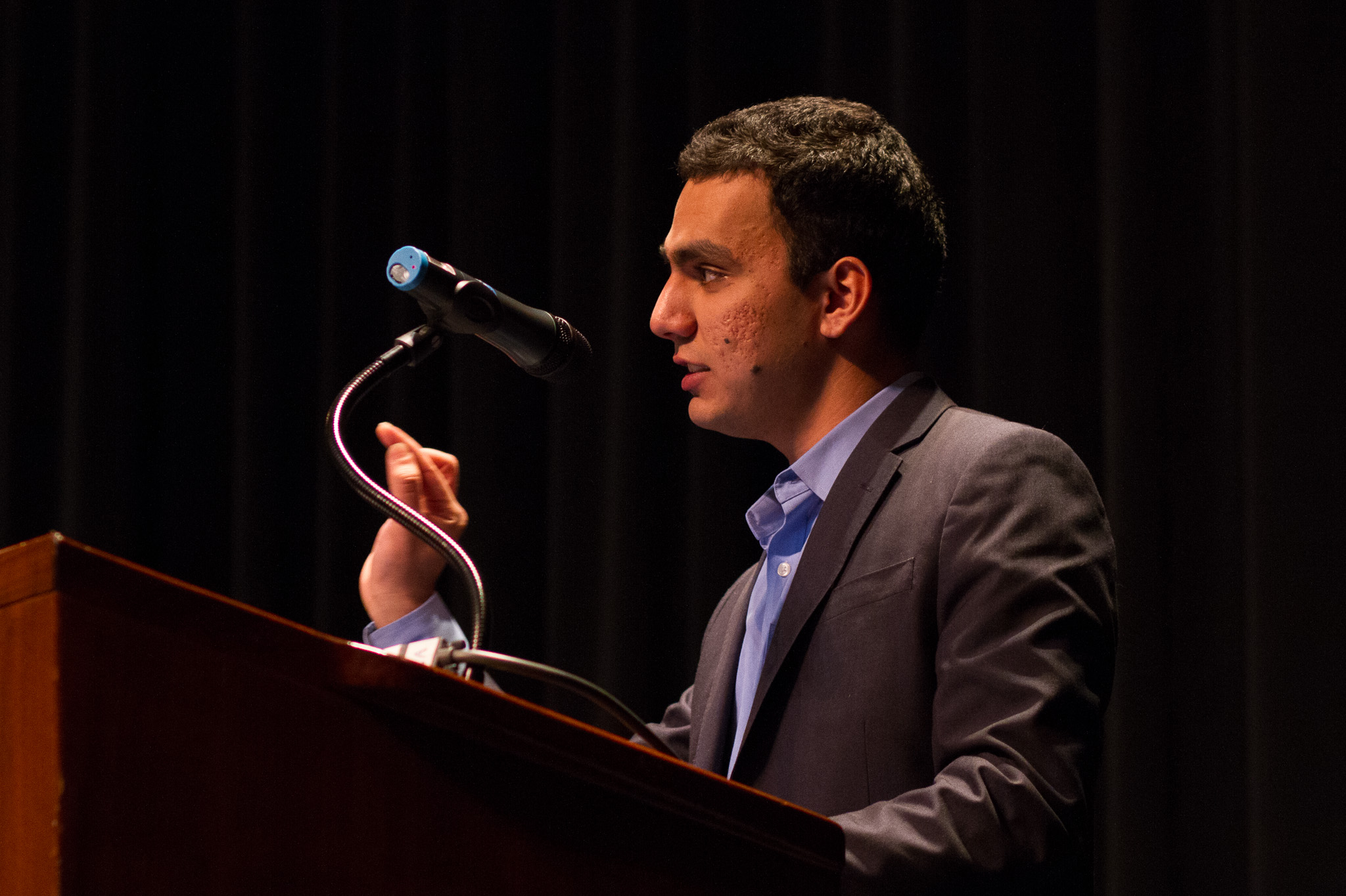 Faisal Saeed al Mutar at SASHAcon 2014 at the University of Missouri.